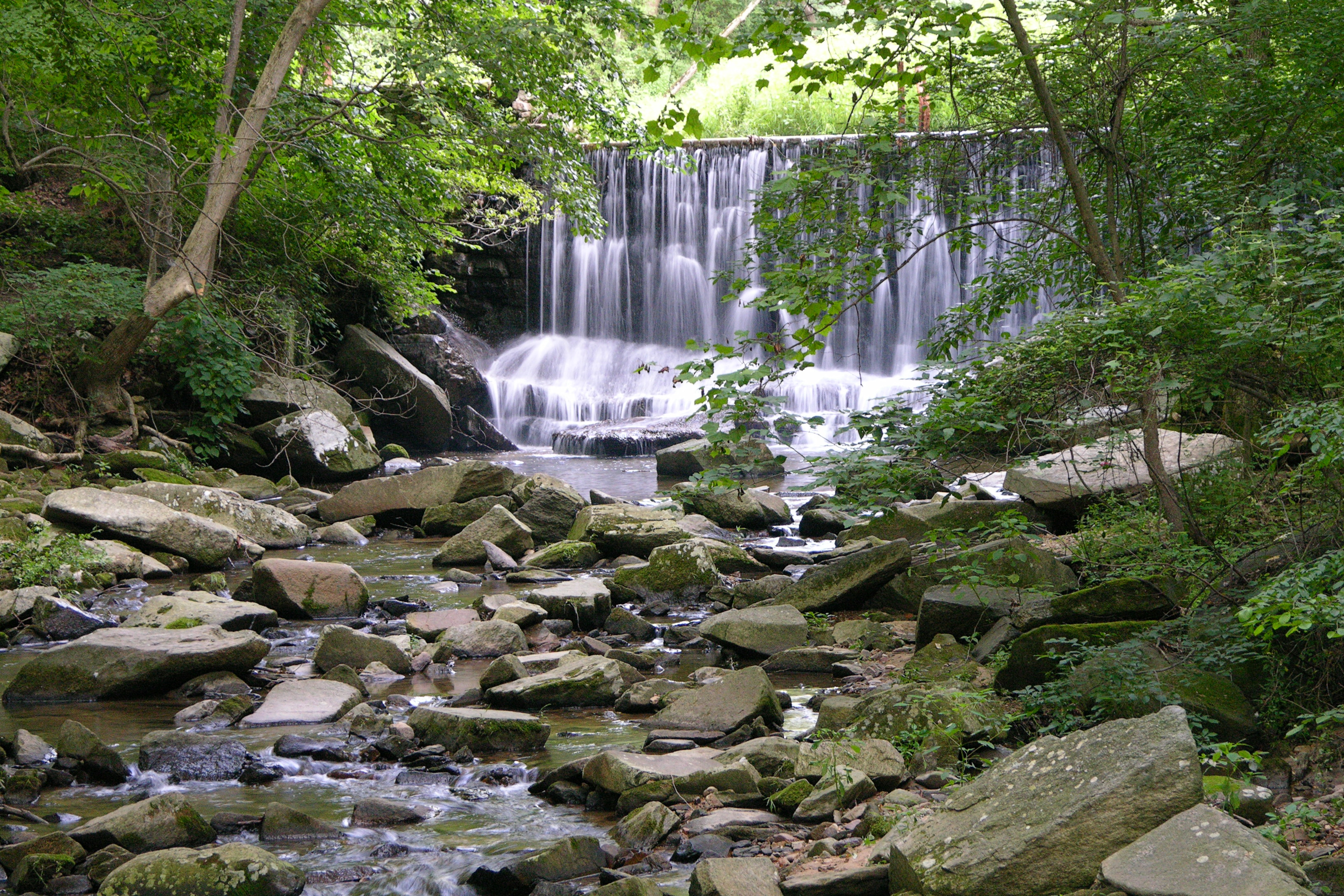 Picture of a waterfall on the Rock Run in the Susquehanna State Park in Maryland.